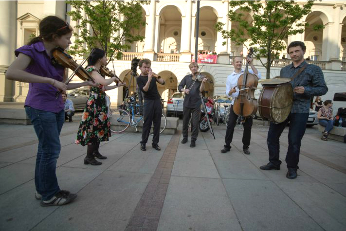 Janusz Prusinowski Trio on the Mazurkas of the World Fest, May 2013